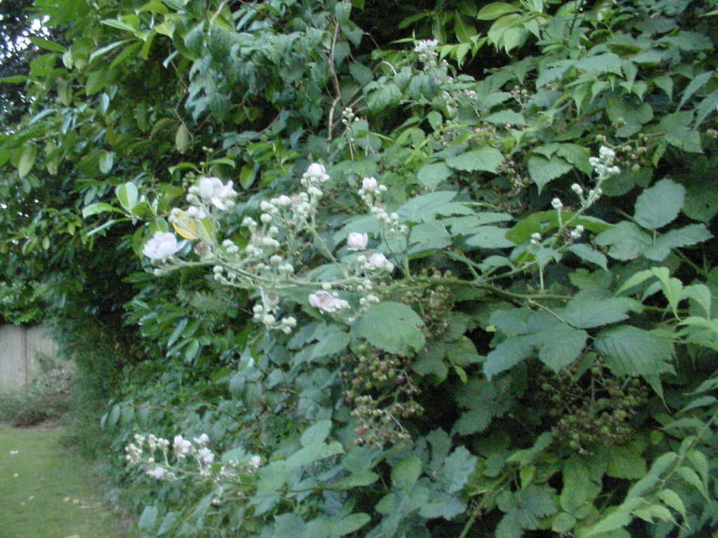 13 August 2007, Manchester, England. Bramble; in background unripe fruit on second-year side shoots; late flowers from tip-flowering of first-year growth.